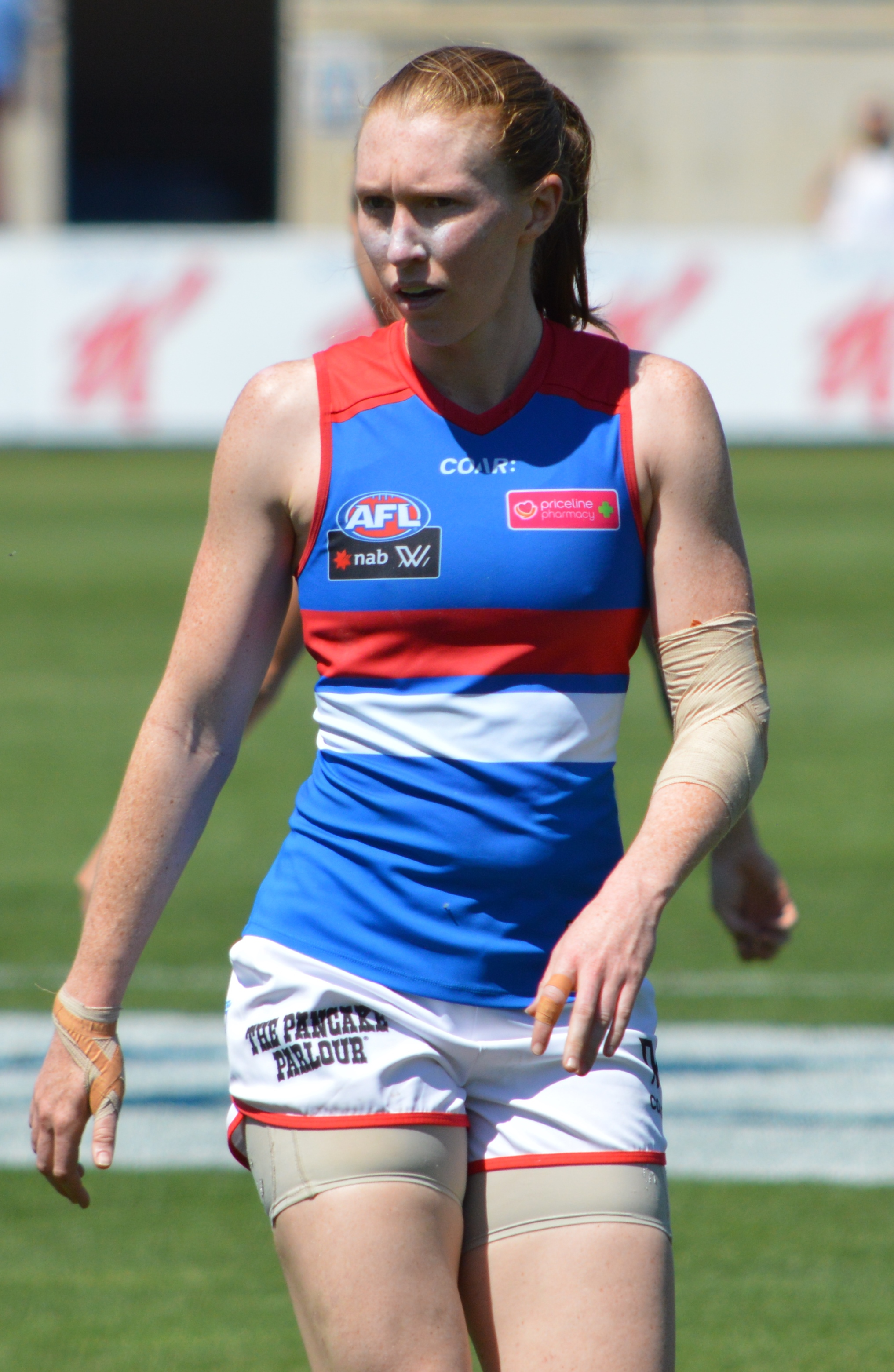 Tiarna Ernst during the round 5, 2017 AFL Women's match between Carlton and the Western Bulldogs